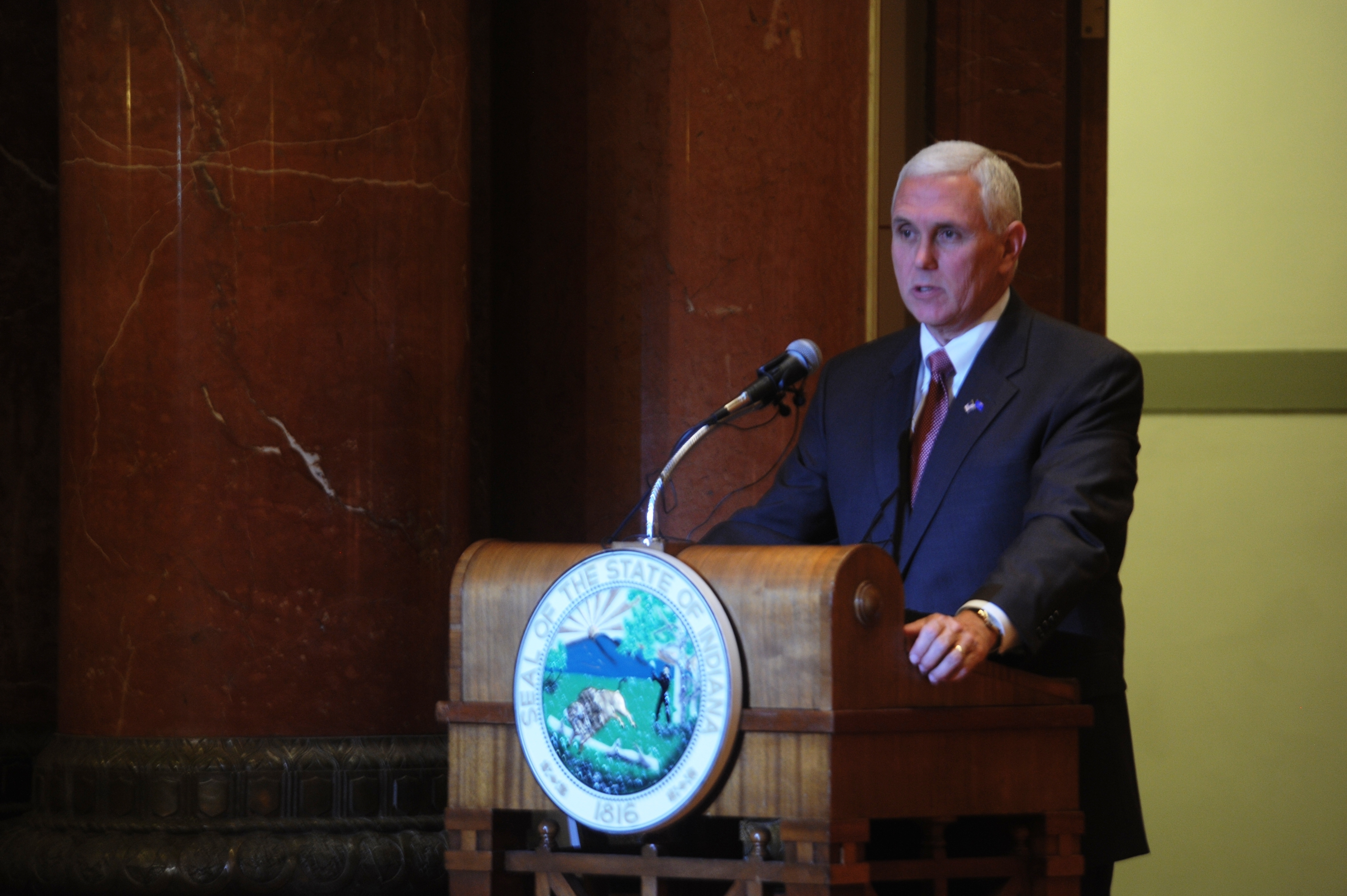 Gov. Mike Pence at the Memorial Service at the Indiana War memorial on Veterans Day, Nov. 11, 2014. (Photo by Staff Sgt. Les Newport, Indiana National Guard)